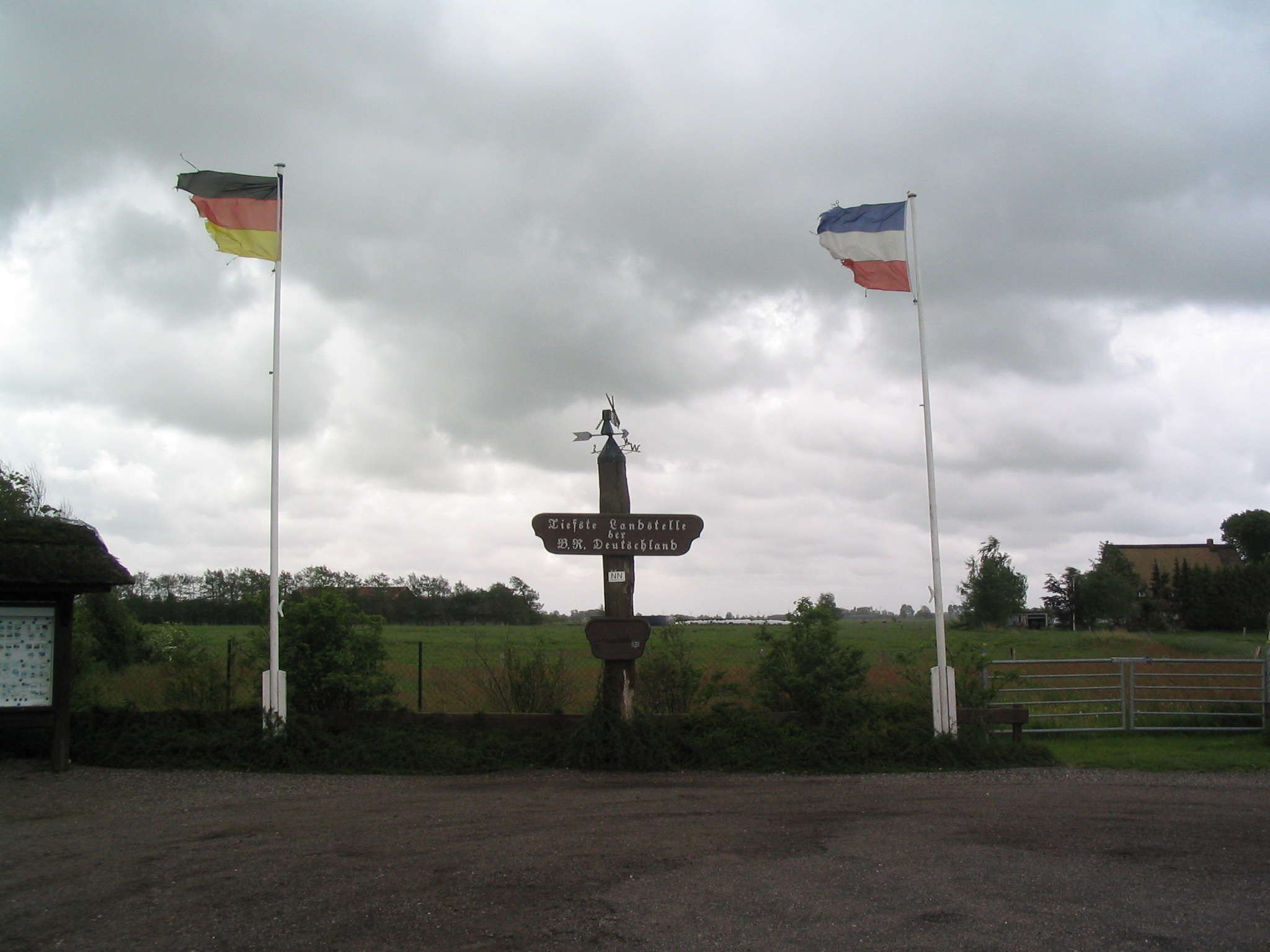 Lowest land point in Germany in the Wilstermarsch